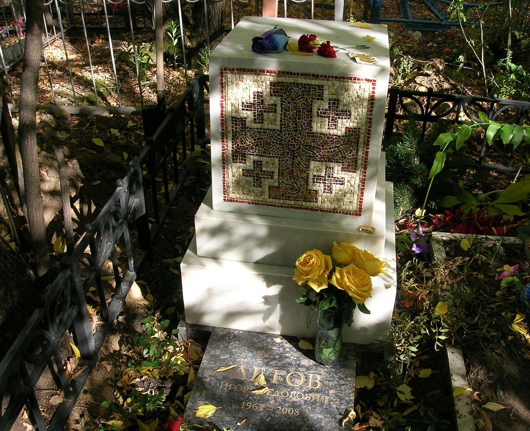 Egor Letov's grave at Omsk